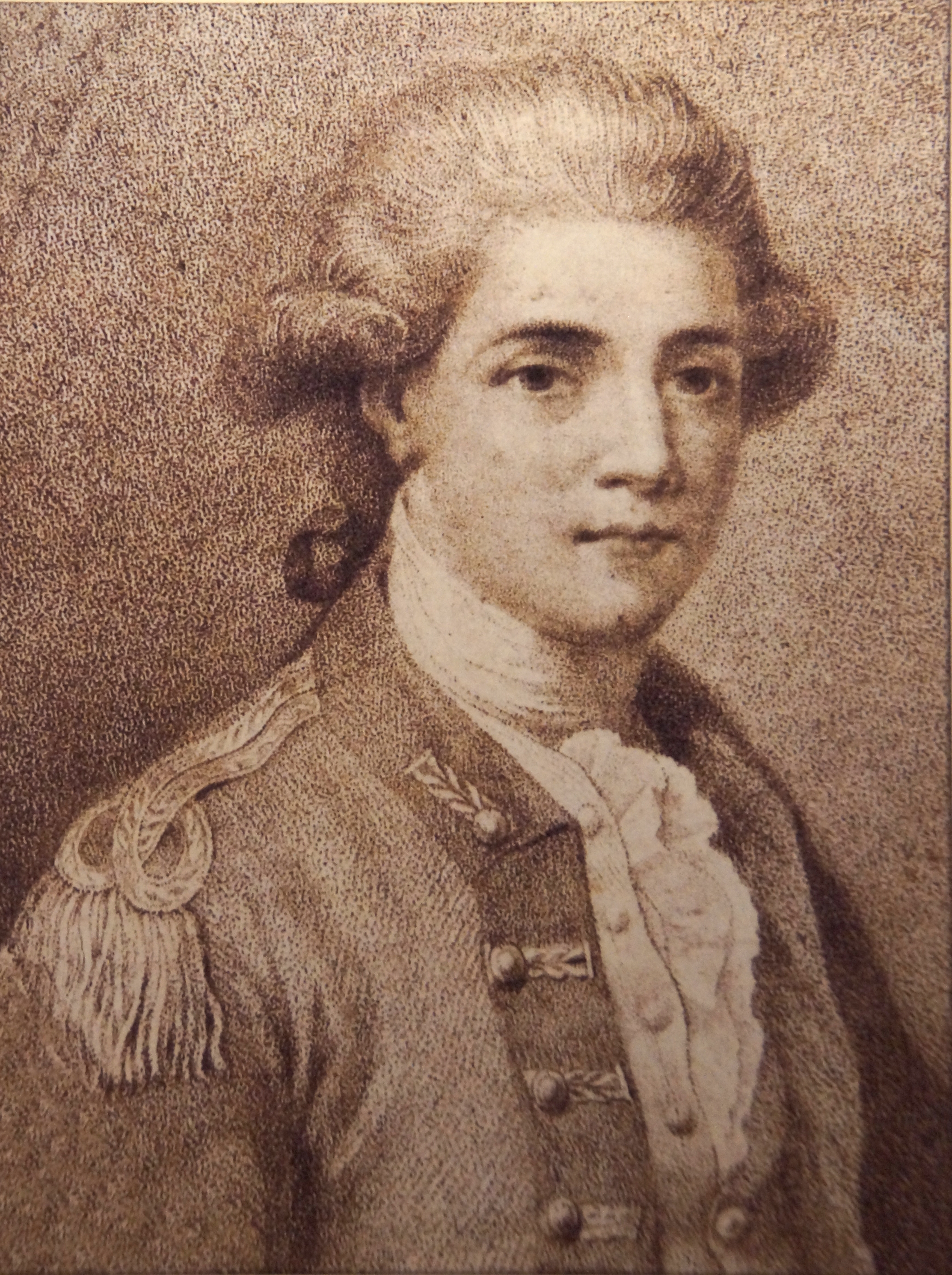 John André